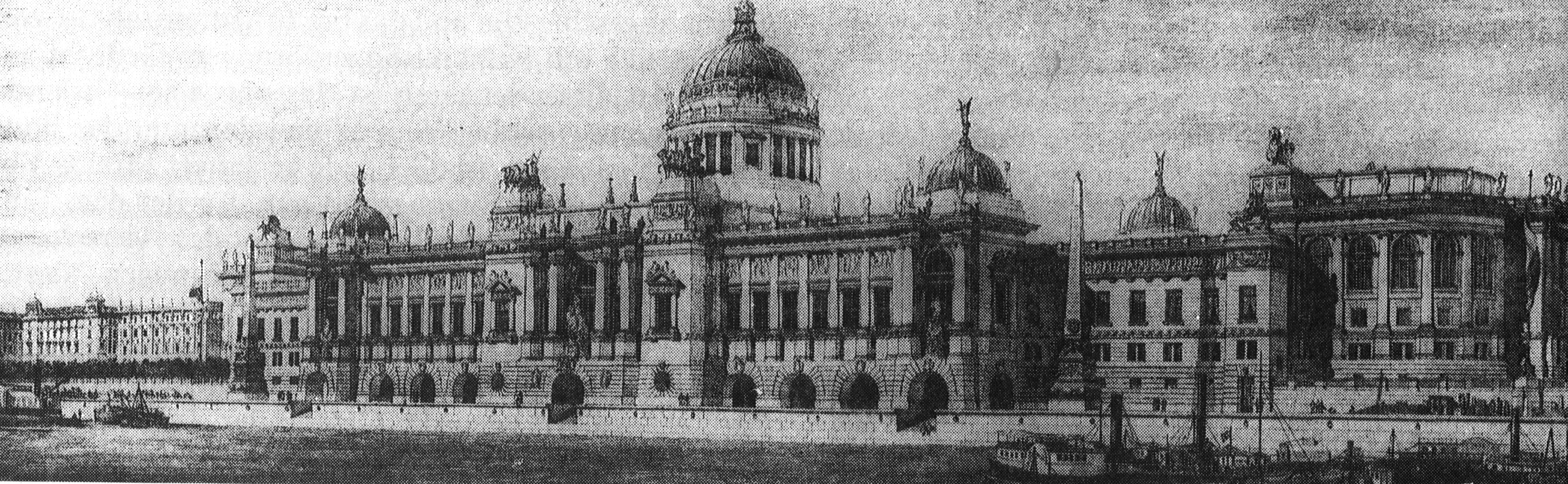 Non winning entry for competition regarding Budapest parliament building (1883)